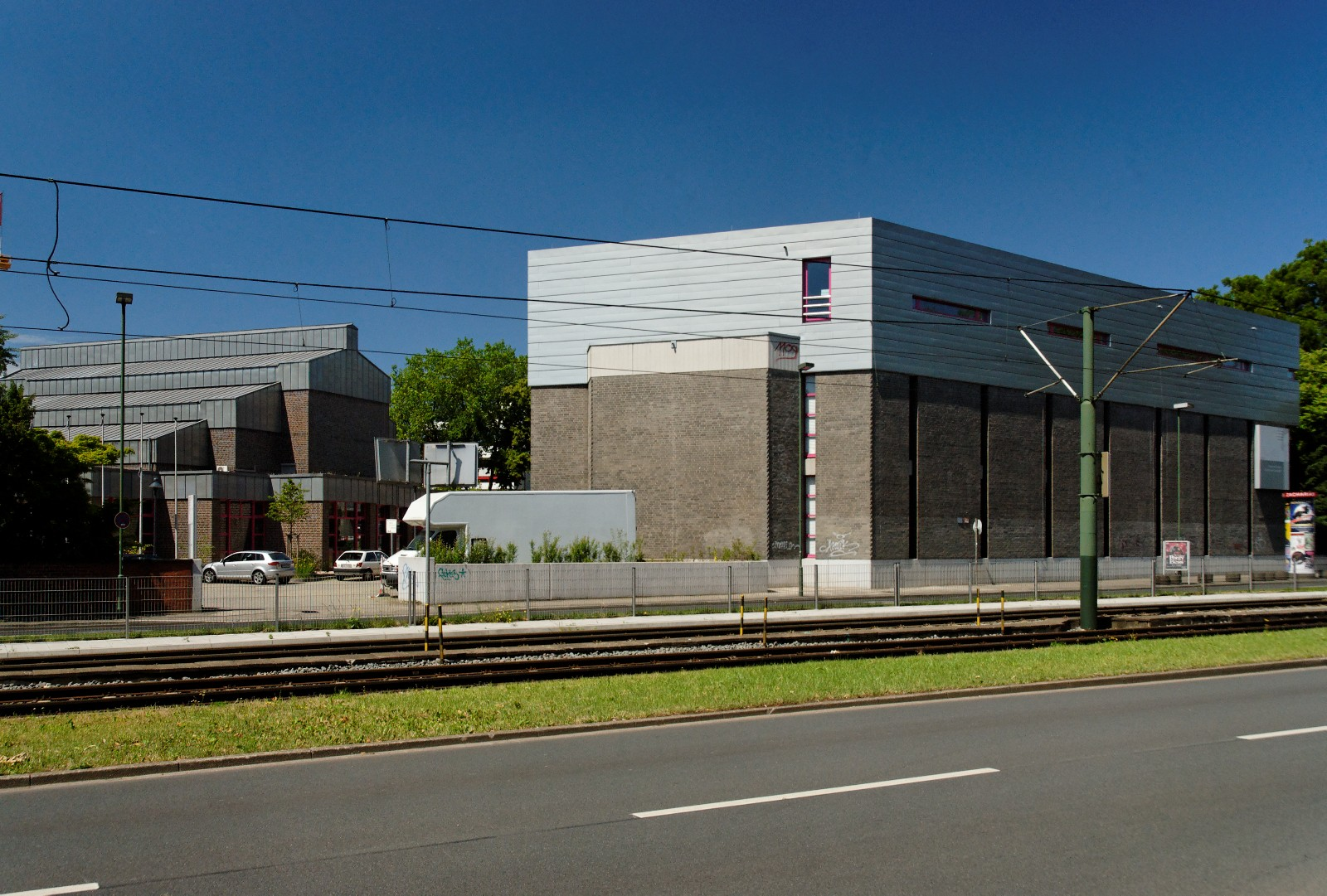 Robert Schumann Music College in Düsseldorf-Golzheim, Germany